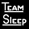 Fantasy football icon